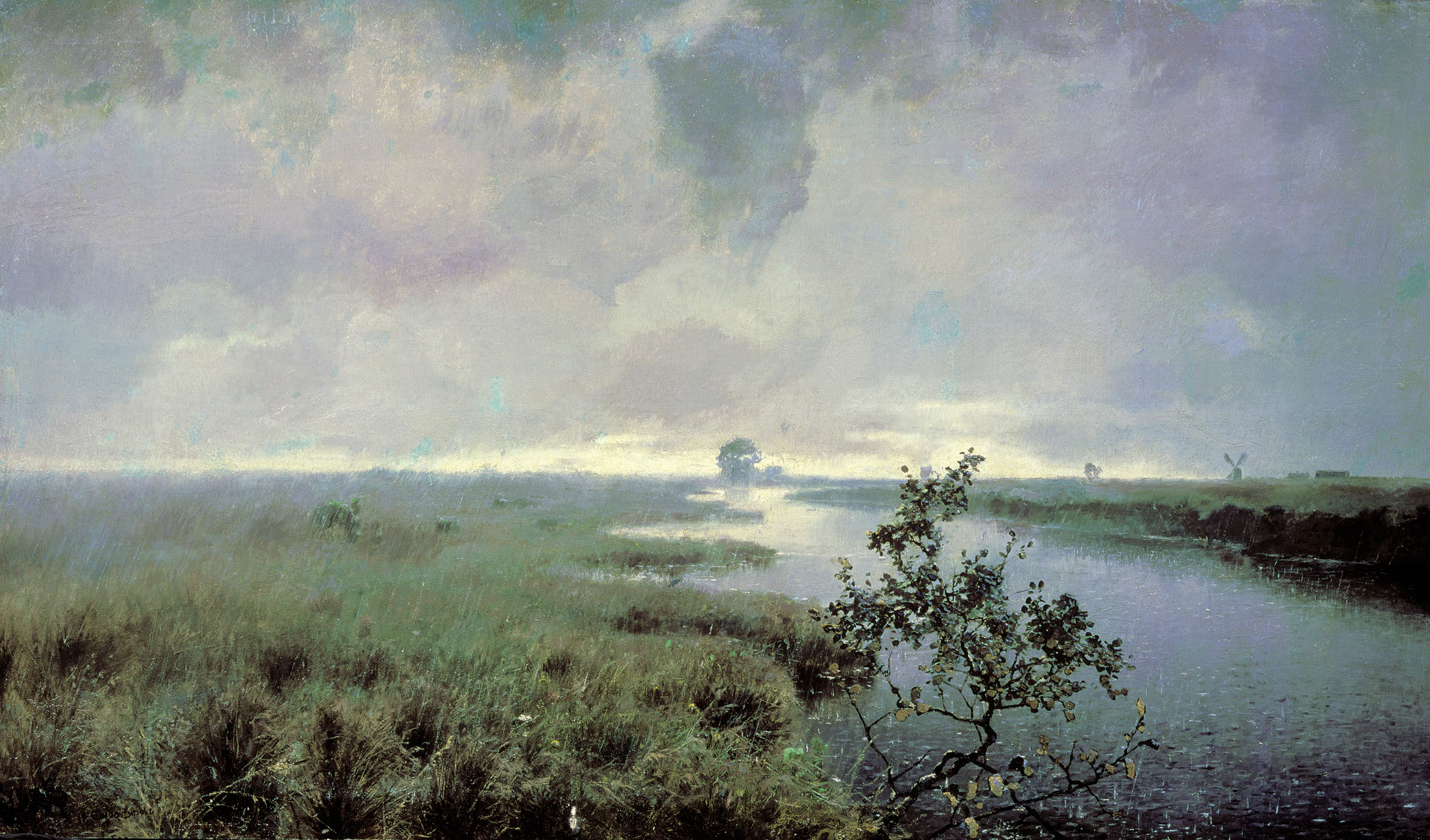 Rain.(?). Oil on canvas. 88 x 150 cm. Sevastopol Art Museum, Ukraine